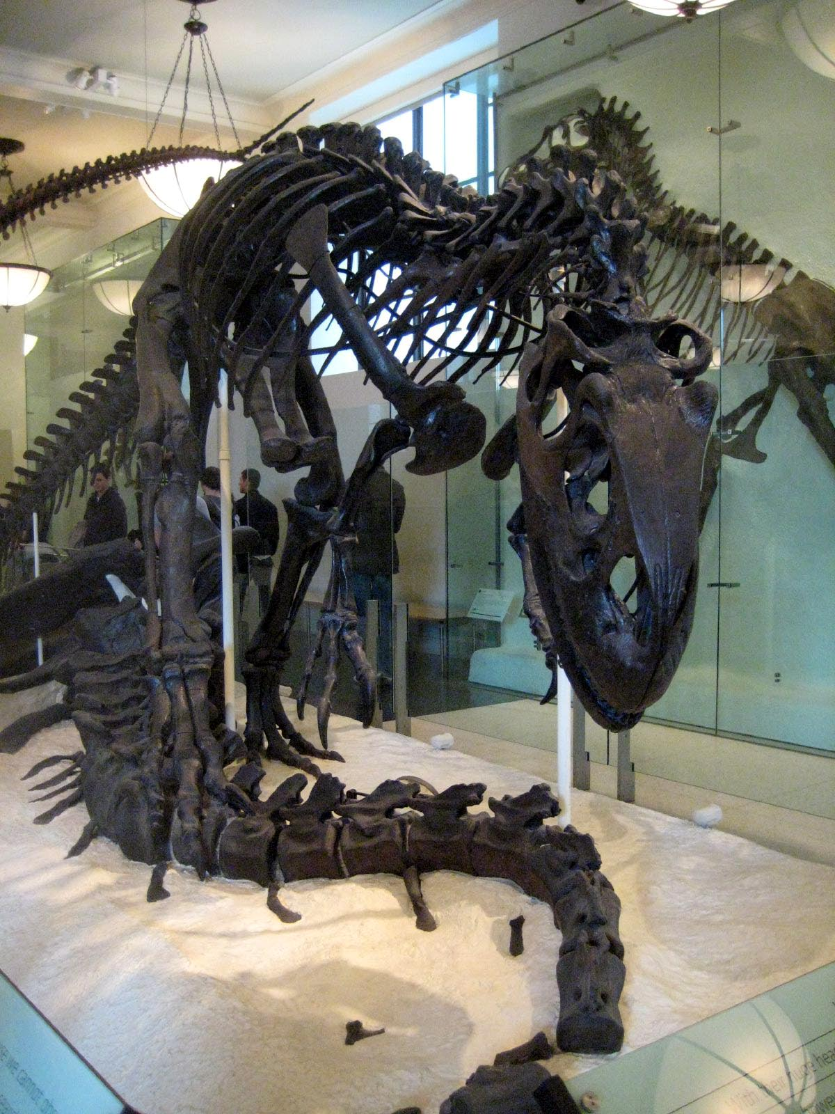 Allosaurus, American Museum of Natural History.